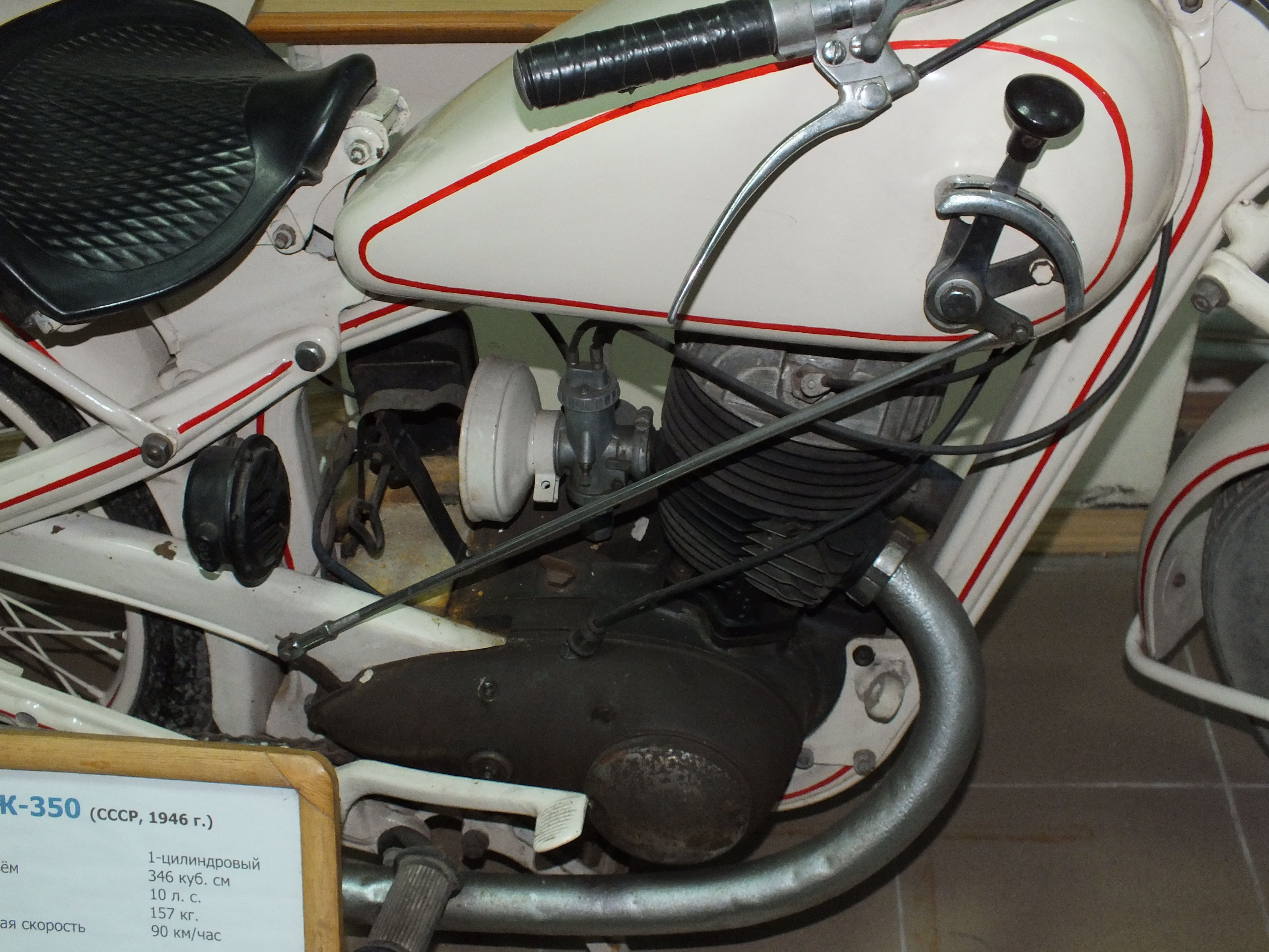 IZH motorcycles